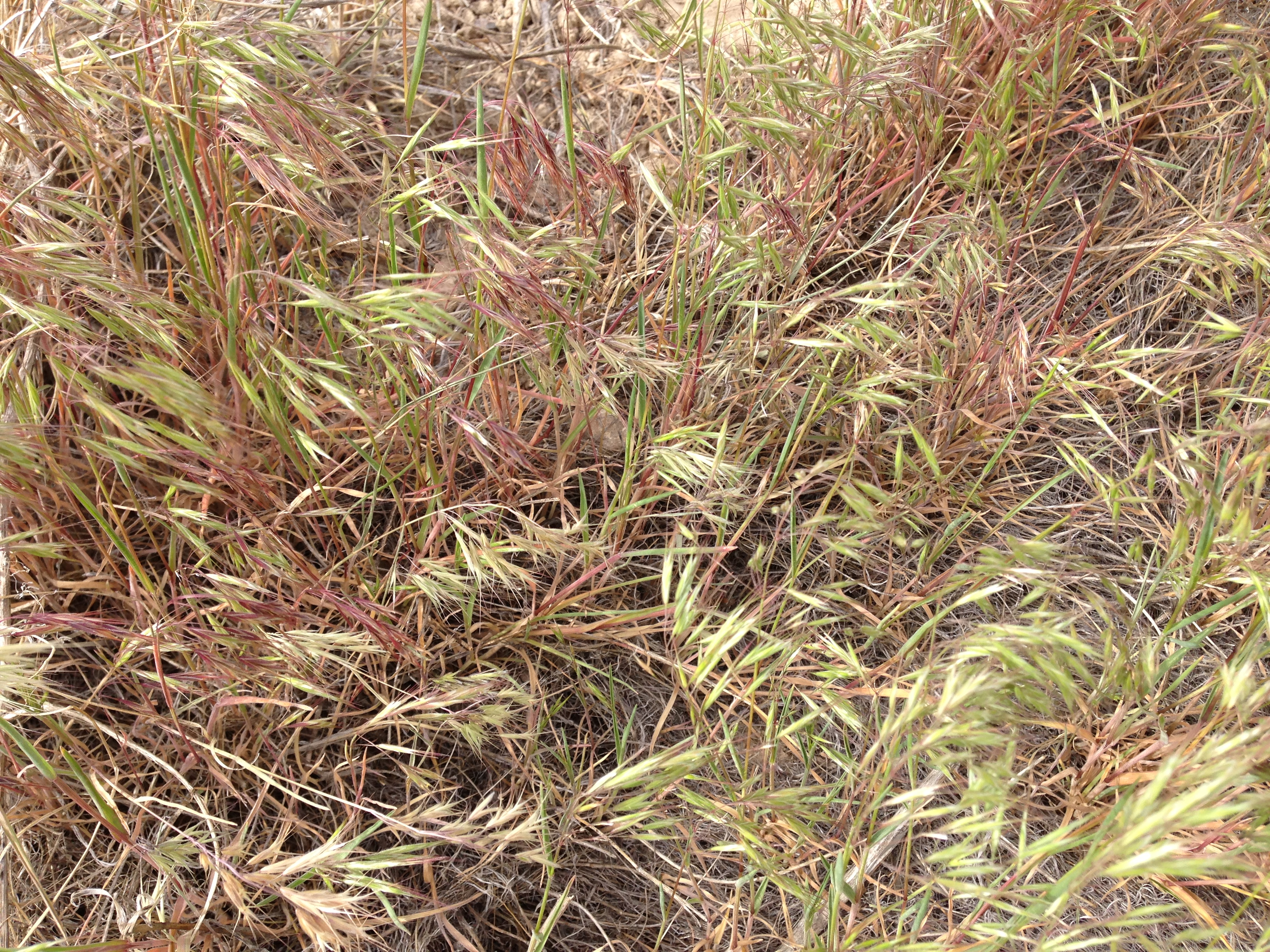 Cheat grass in Elko, Nevada